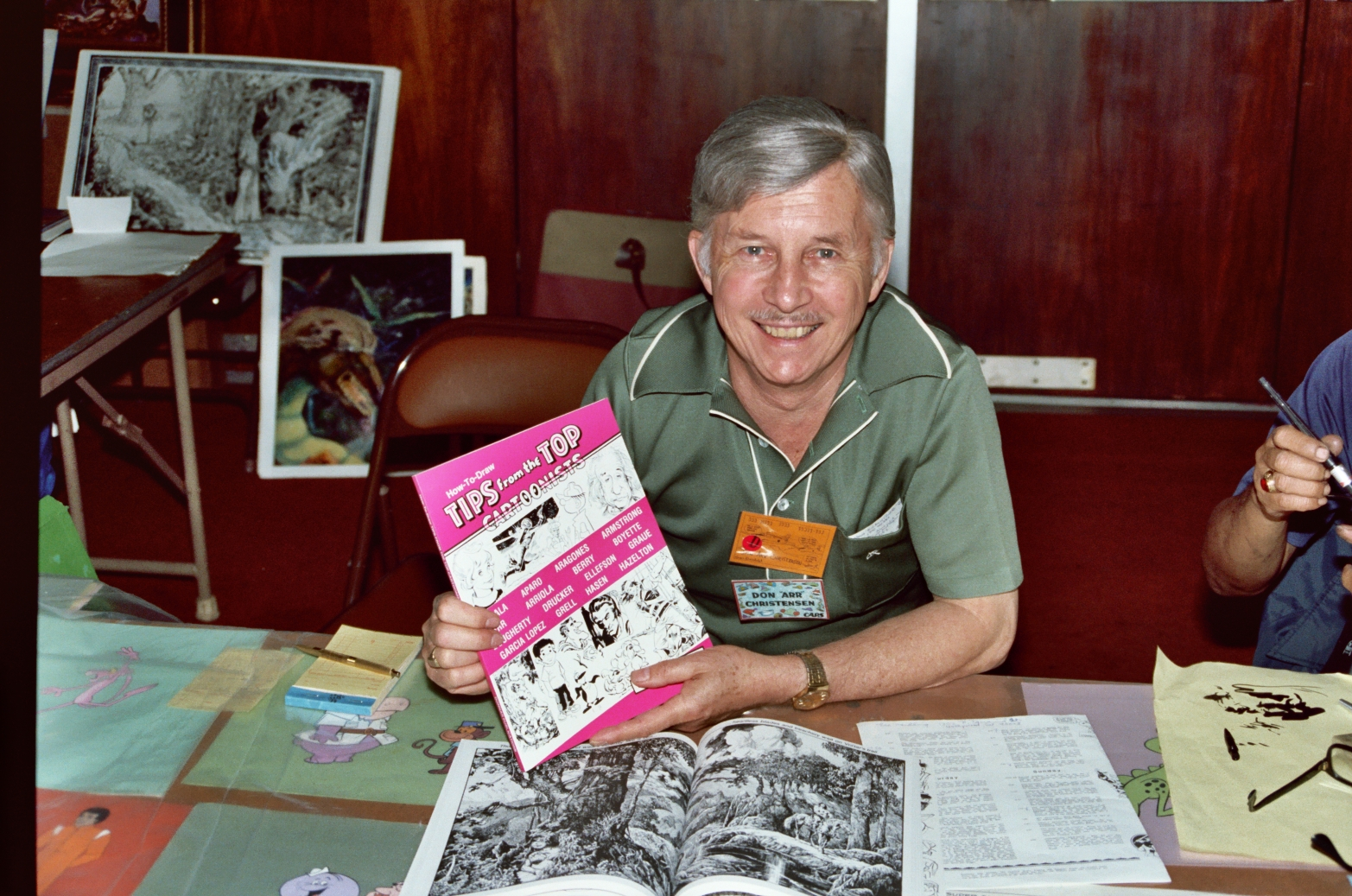 Don R. Christensen at the 1982 San Diego Comic Con (today called Comic-Con International).